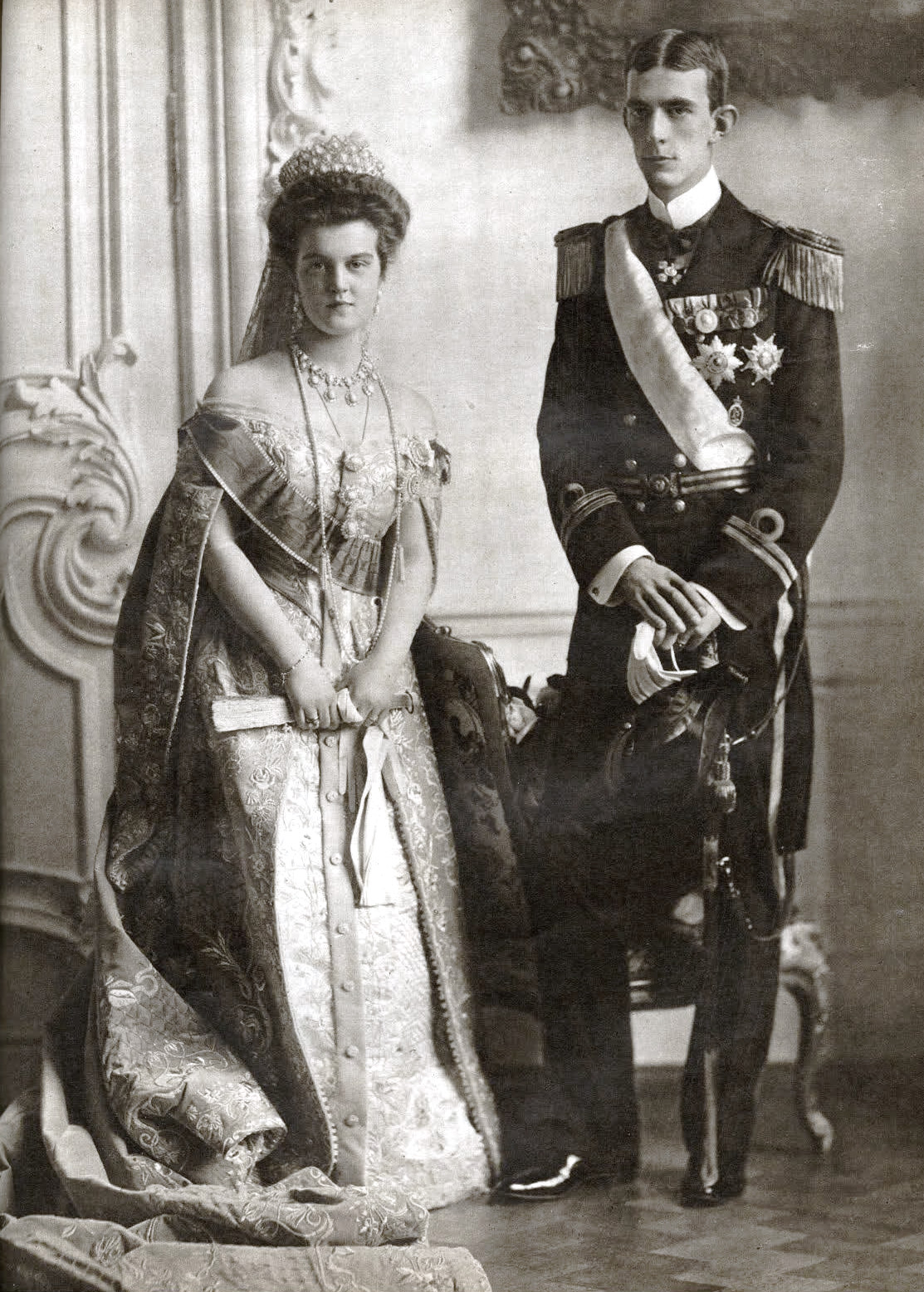 Grand duchess Maria Pavlovna (1890–1958) of Russia and Prince Wilhelm of Sweden (1884–1965) at the time of their wedding in 1908.